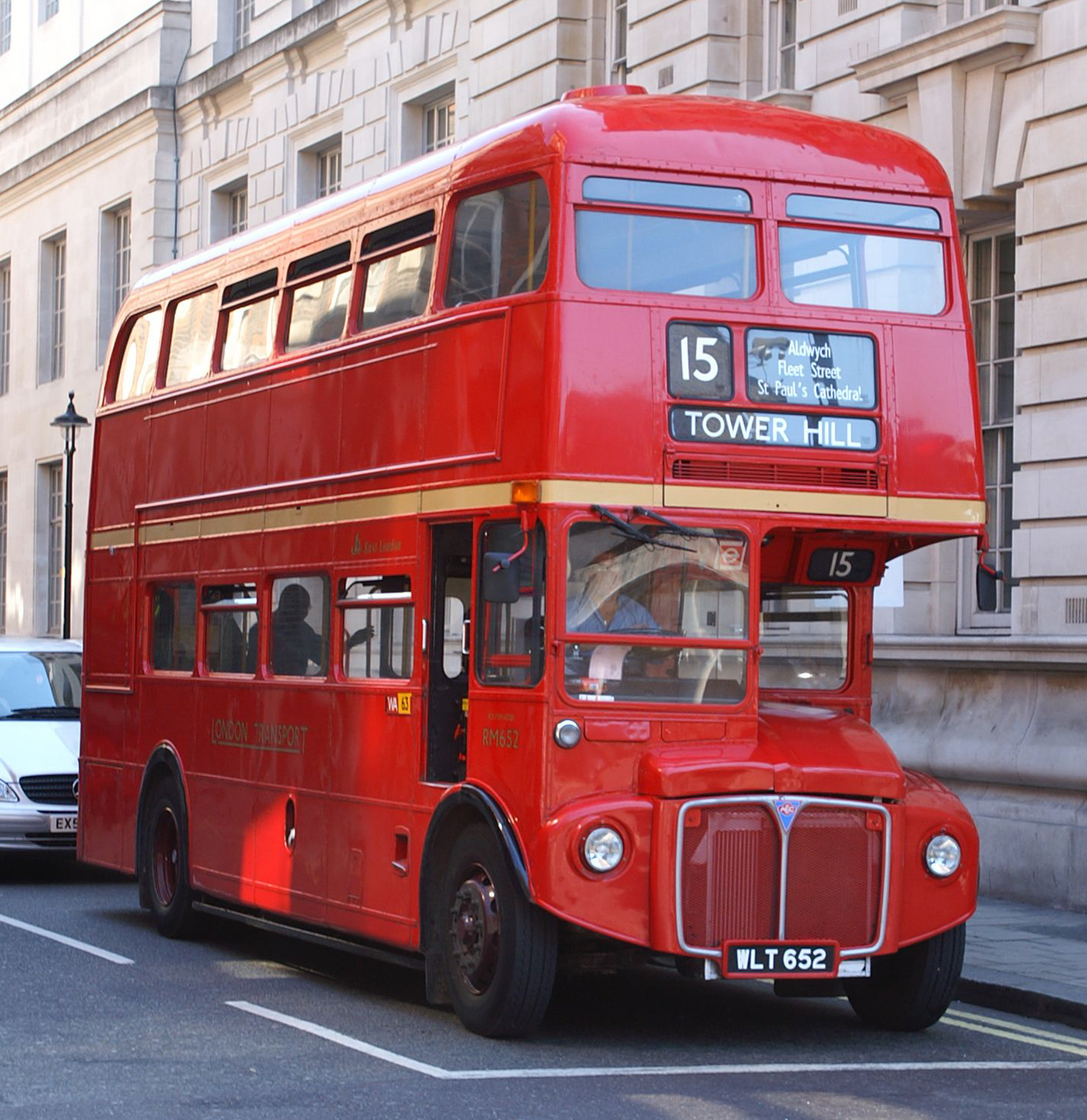 East London Routemaster bus RM652 (reg. WLT 652), pictured heading north on Whitehall. The bus is running out of service on London Buses heritage route 15, about to start a new journey from Trafalgar Square to Tower Hill. It had passed in the opposite direction a few minutes earlier (as seen in this and this image), having just completed a journey to the Square.